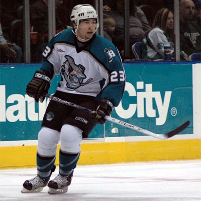 Cleveland Barons forward Josh Hennessy, photo taken by me, Melissa Hess, during the 2005-06 hockey season.